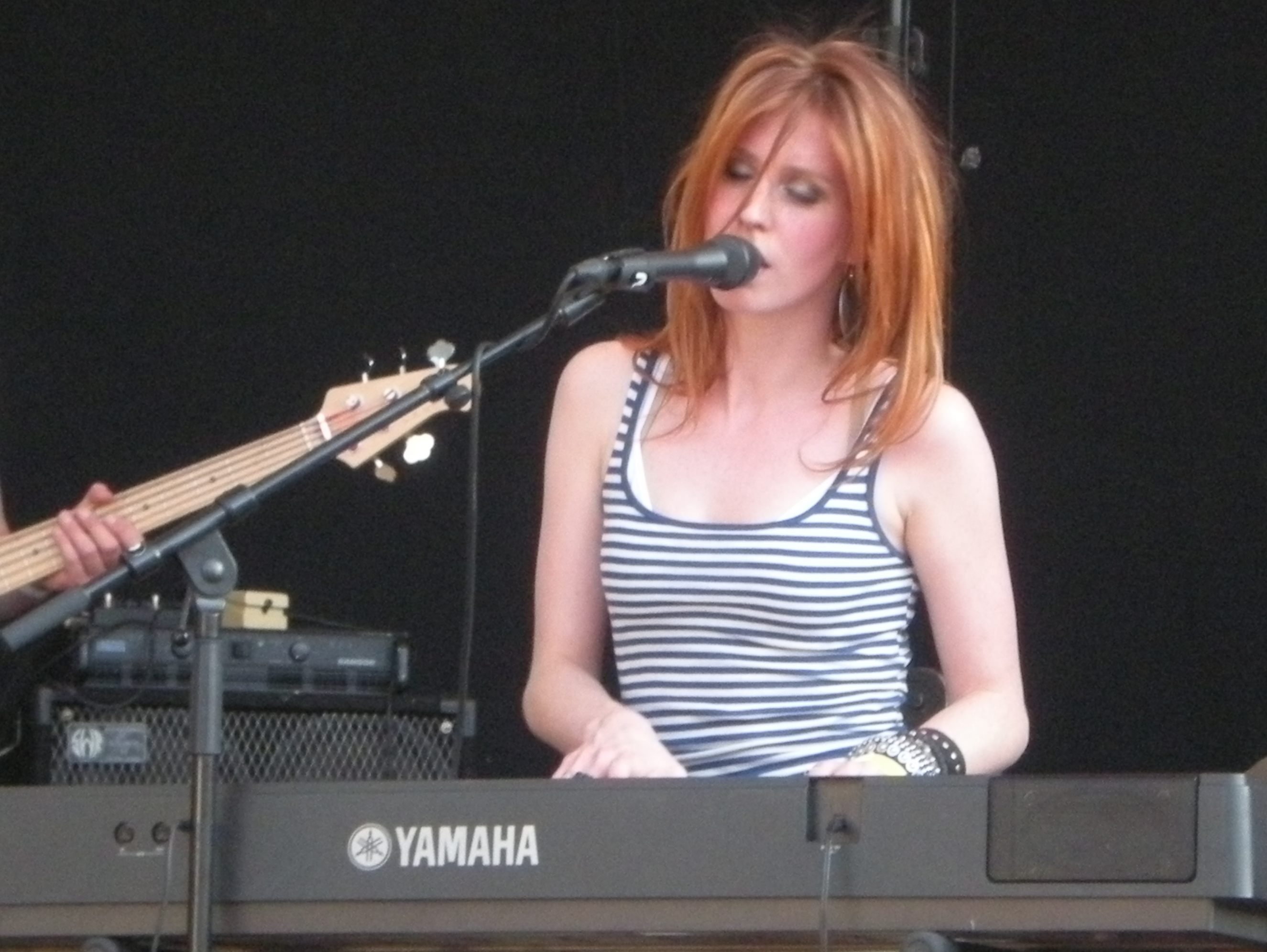 Elske DeWall